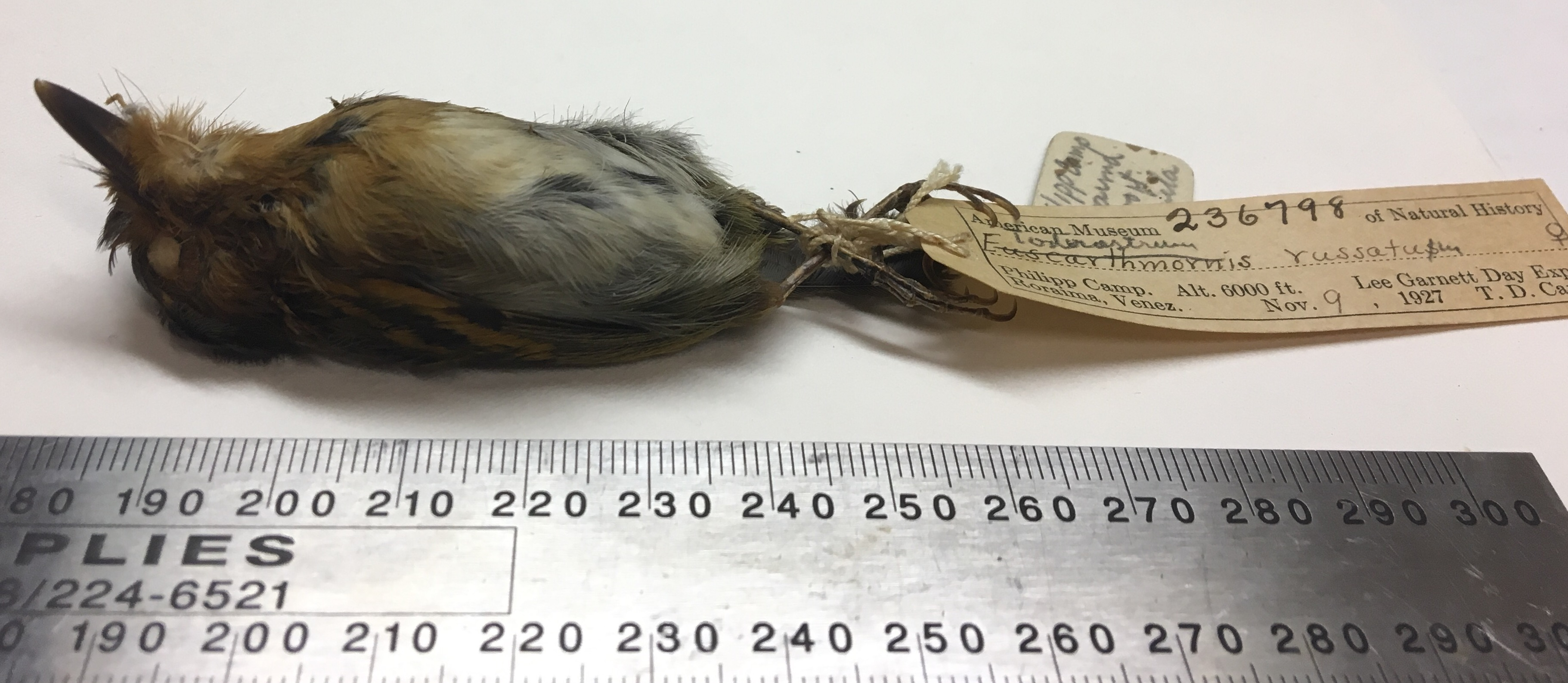 Museum specimen of _P. russatum_ in collection of AMNH AMNH236498F